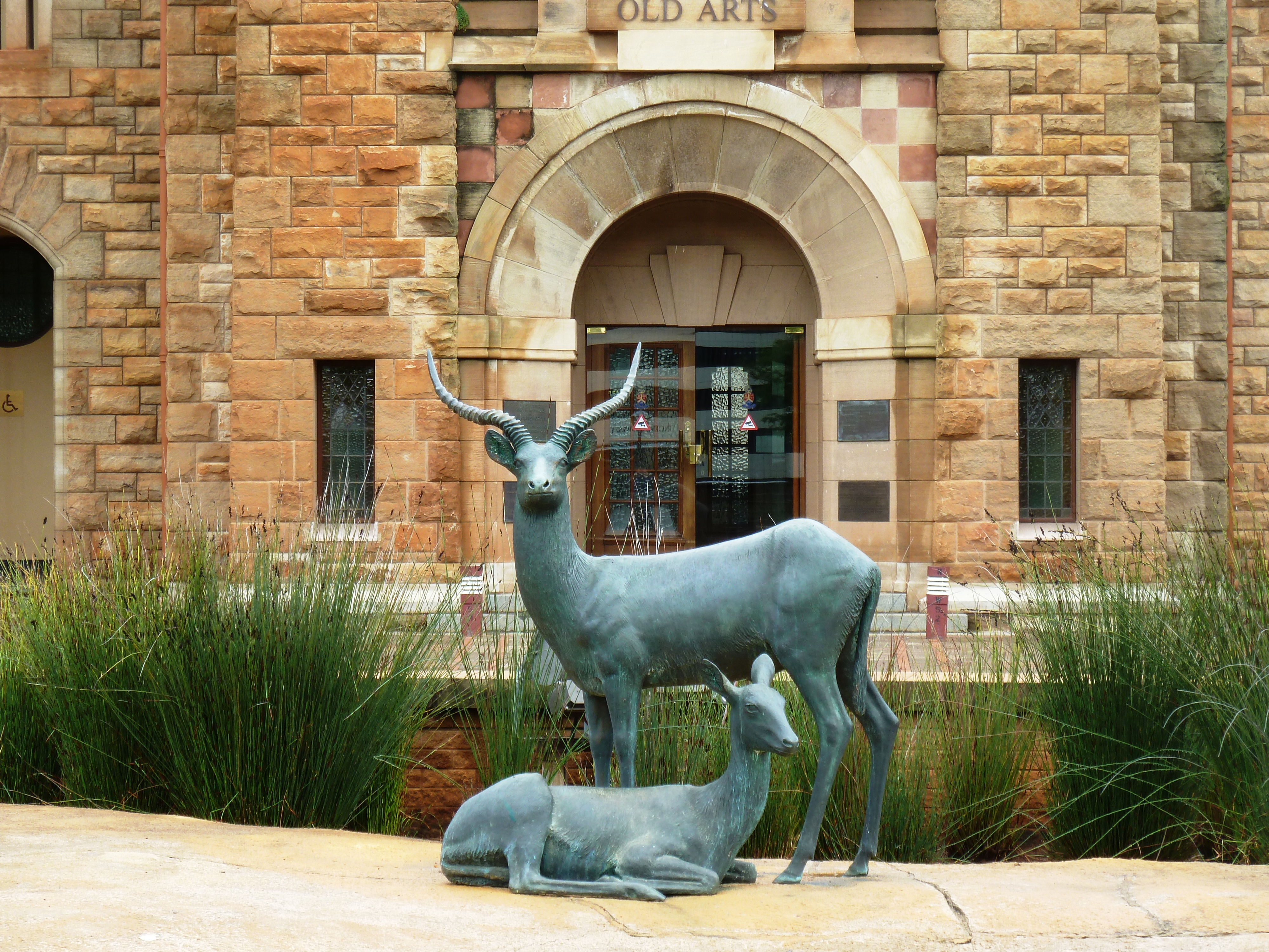 Red Lechwes statue at the Old Arts building at the University of Pretoria